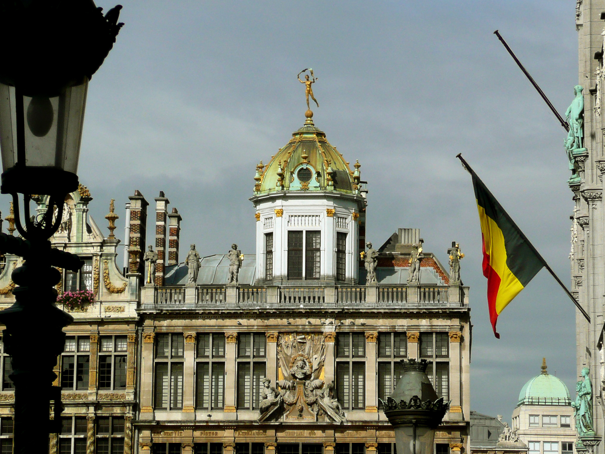 Upper part of the King of Spain House, Grand-place n°1, Brussels.